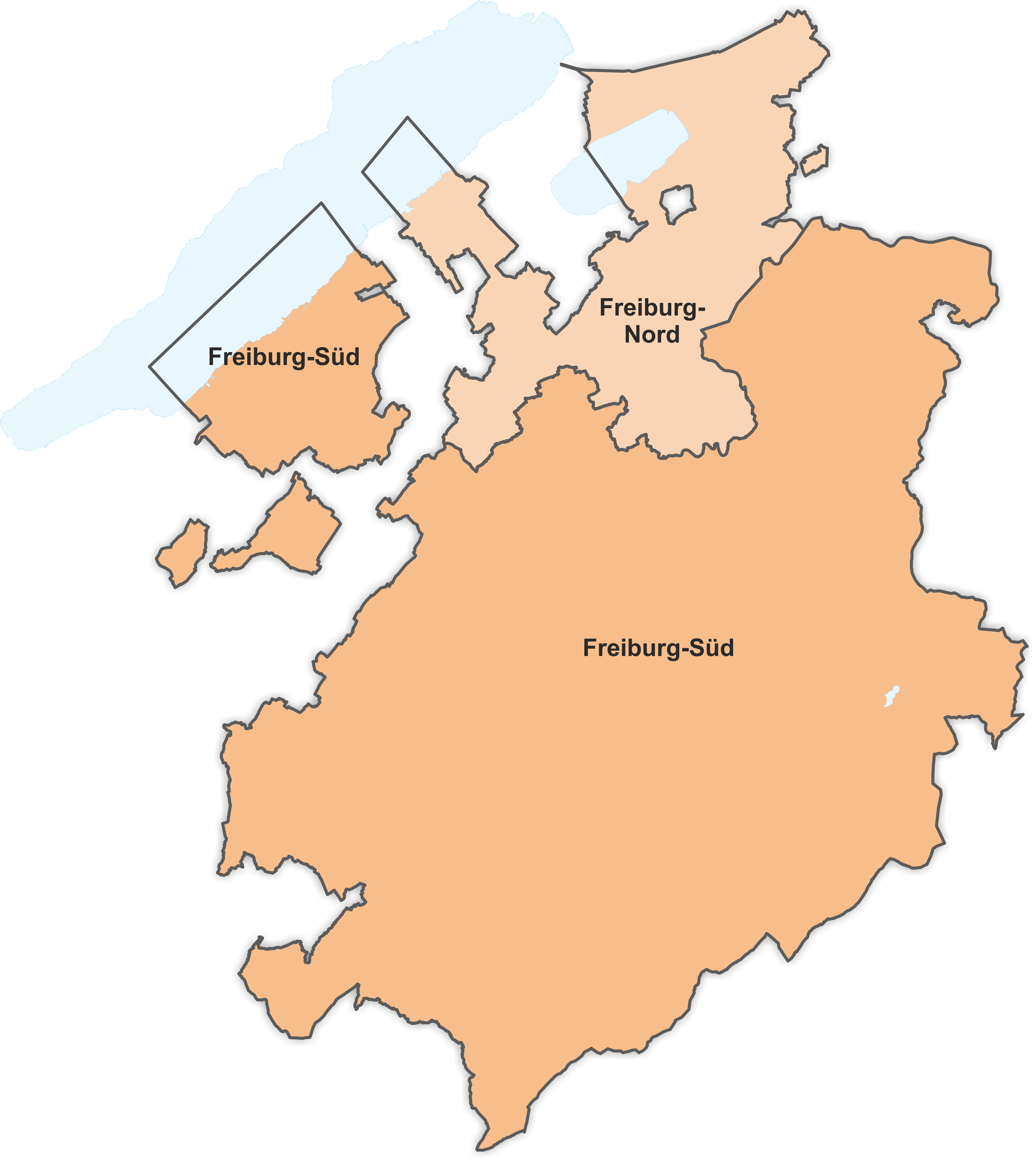 National council constituencies in the canton of Fribourg from 1911 to 1917